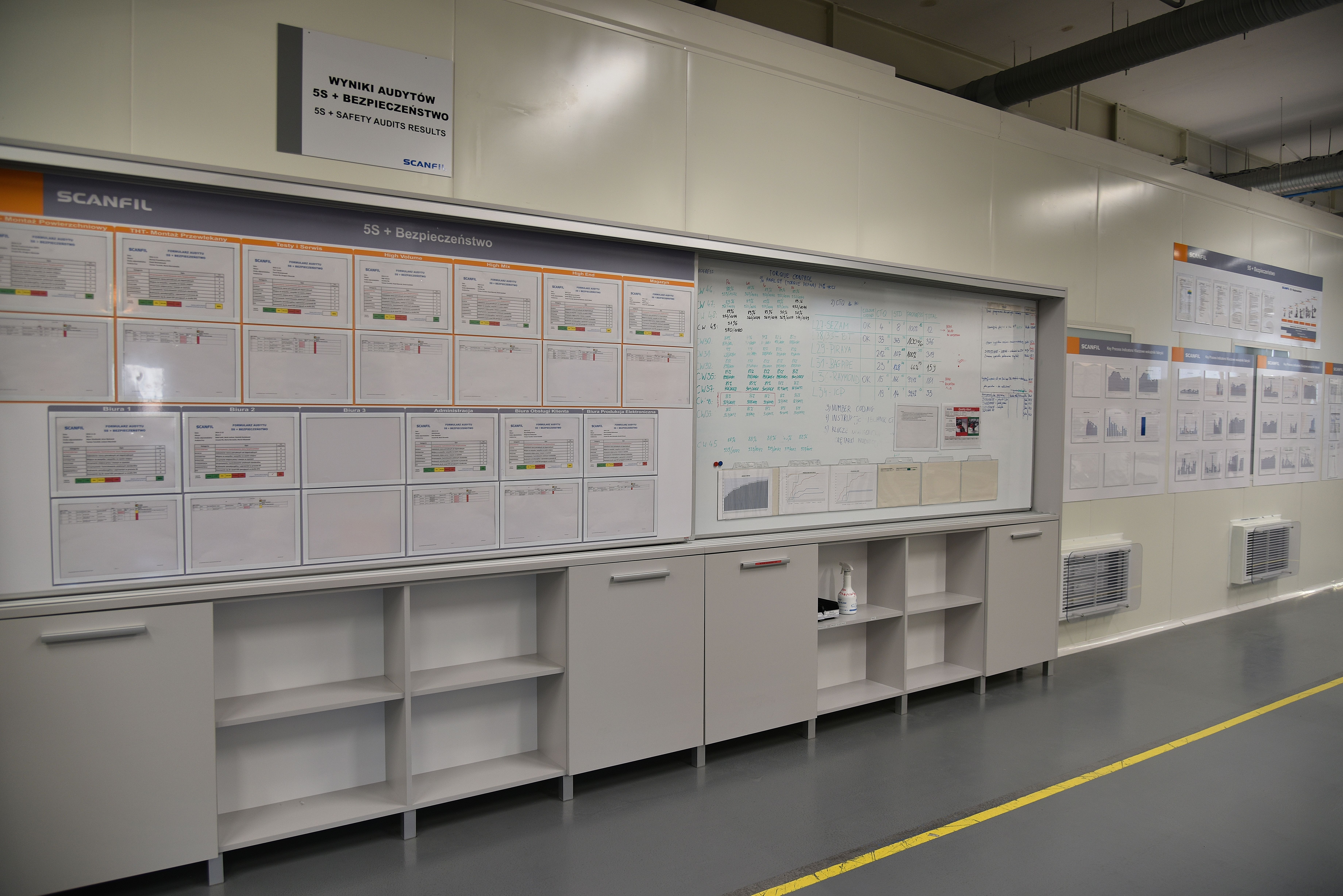 5S & Safety audit boards at the Scanfil Poland factory in Sieradz